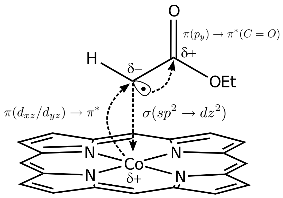 Example of carbene radical bond mechanism in cobalt porphyrin and CHCO2-Et reaction intermediate.